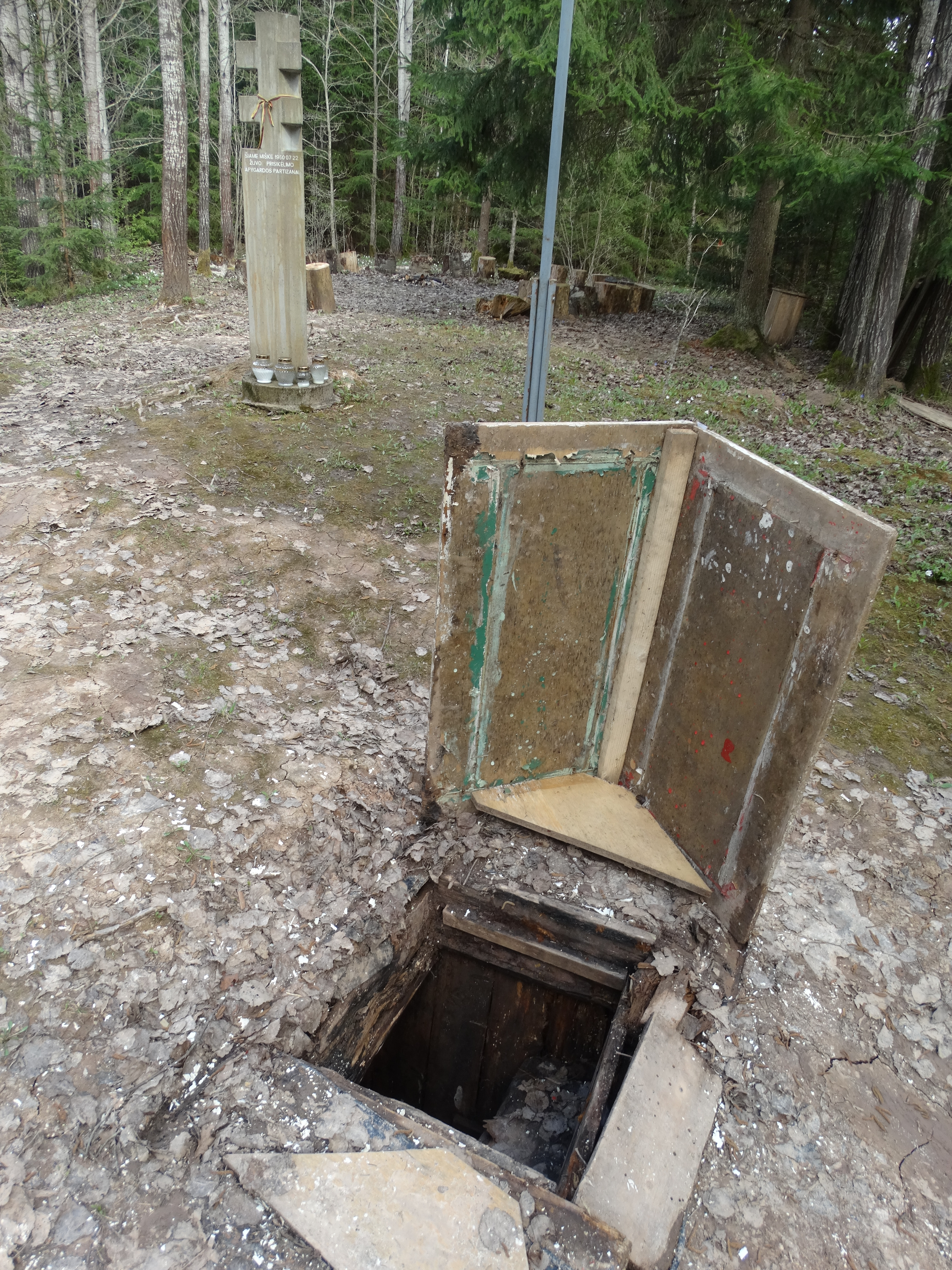 Memorial to partisans, Daugėliškiai forest, Raseiniai district, Lithuania